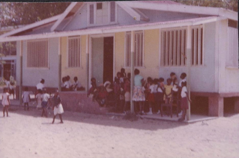 Beachfront school in Grenada, 1965